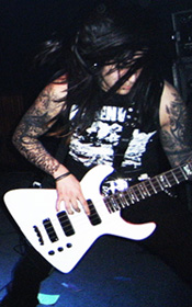 Mika Horiuchi at the waitingroom